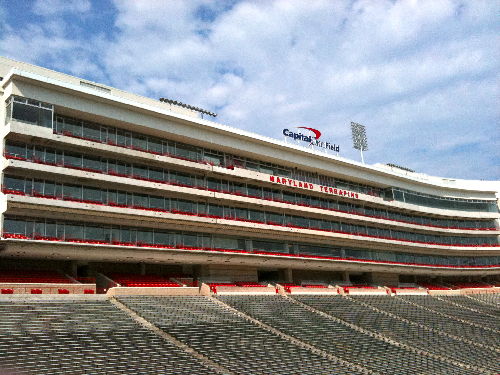 A photo of Tyser Tower